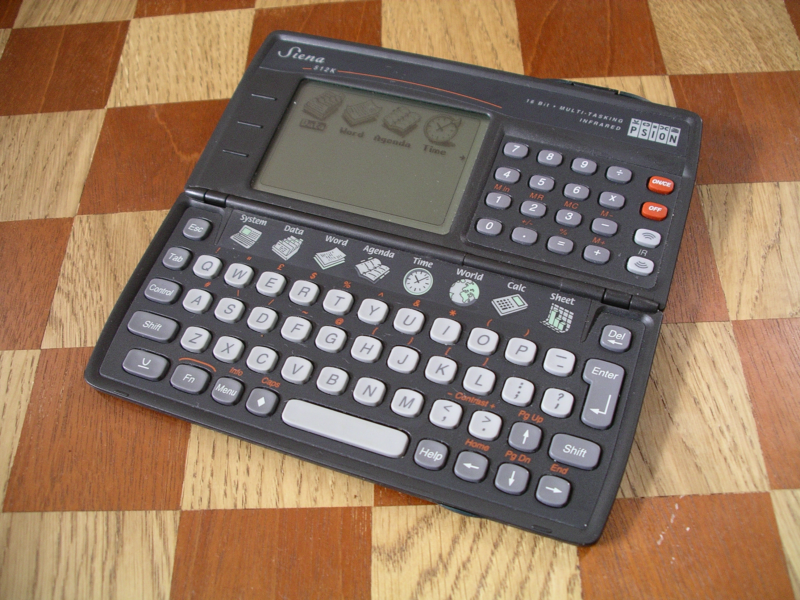 Photo of a Psion Siena 512k palmtop organiser with the lid open. The background is of 5cm squares.